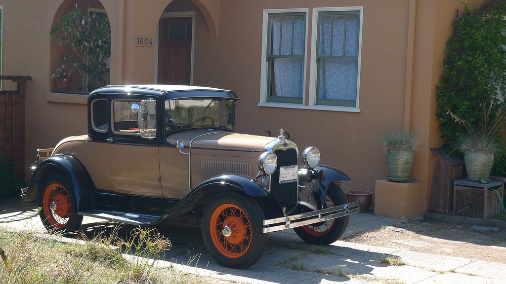 My friend's neighbor in North Berkeley rented this for his son's birthday party. I guarantee dad had more fun with it than junior.